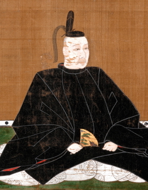 Kobayakawa Takakage, Beisanji, Mihara, Hiroshima, Japan